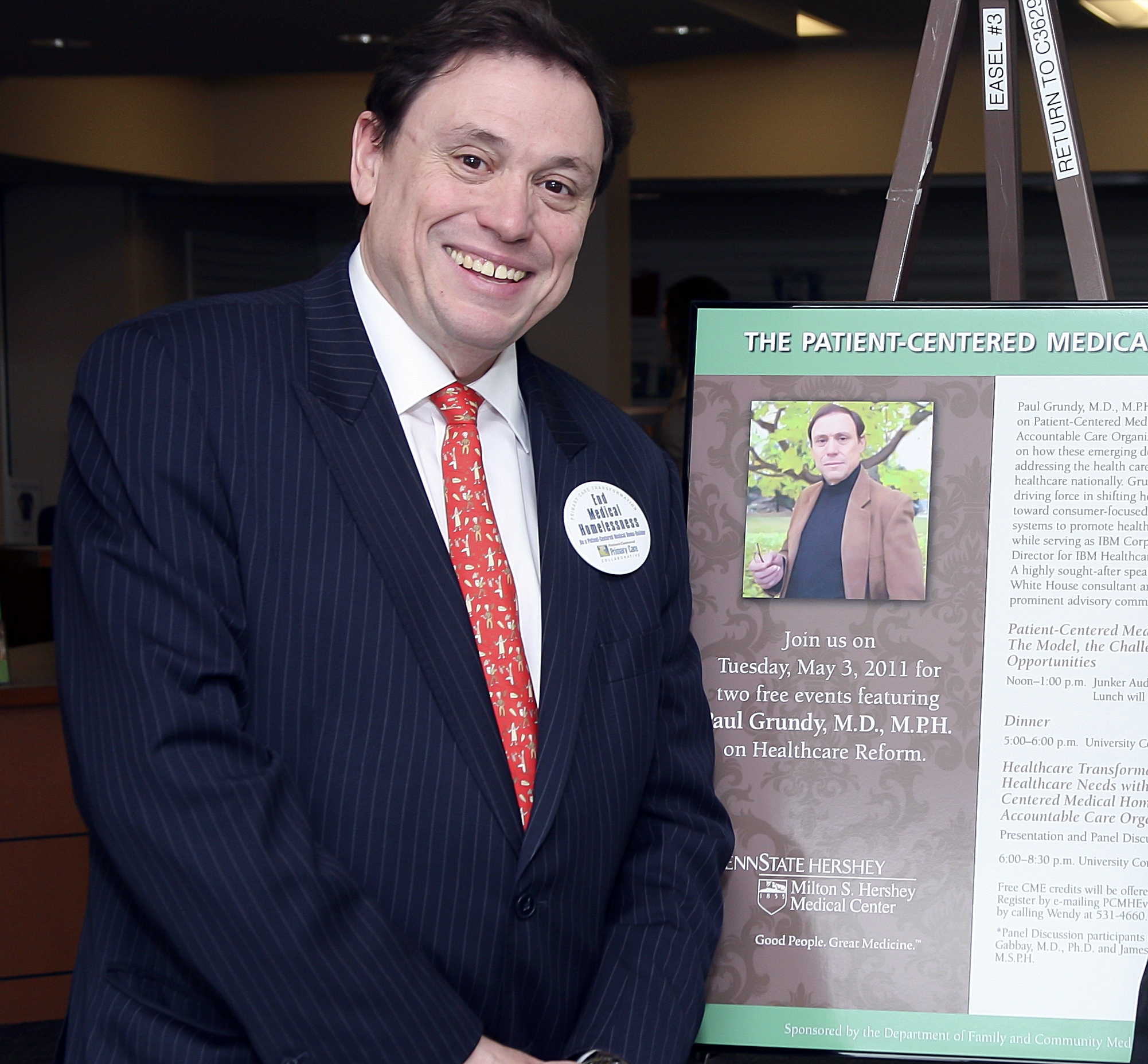 Dr. Paul Grundy preparing to give a lecture on Patient Centered Medical Home.